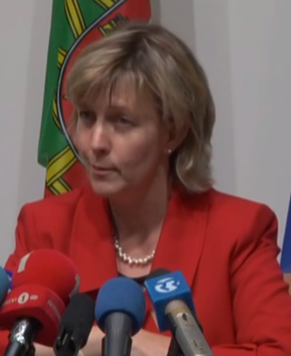 Maria Luís Albuquerque